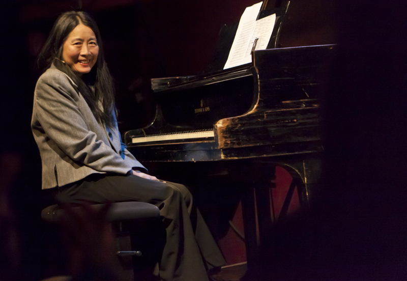 Pi-Hsien Chen, german piano player (chinese born)